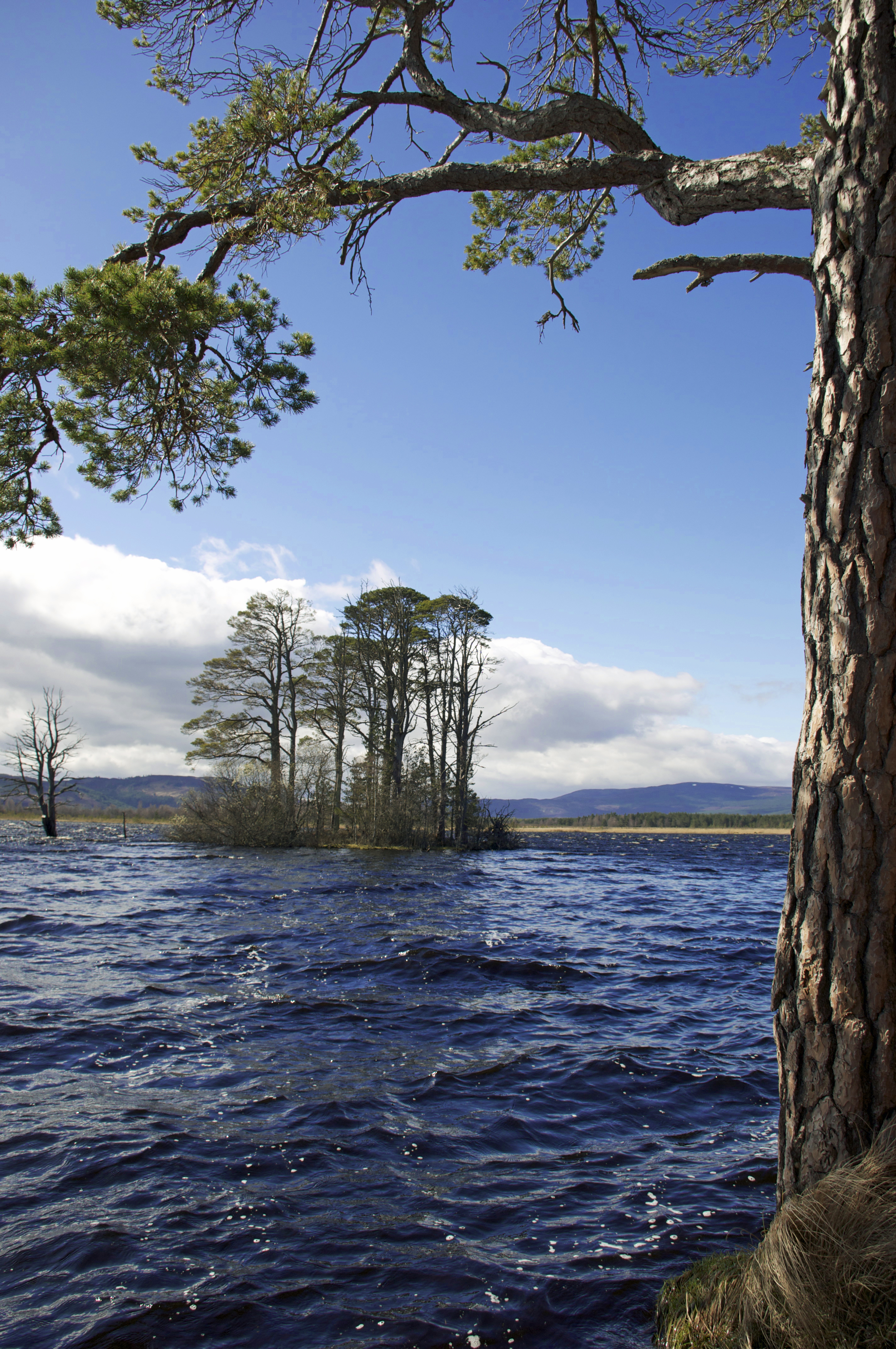 Pinus sylvestris, Loch Mallachie, Speyside, Scotland.